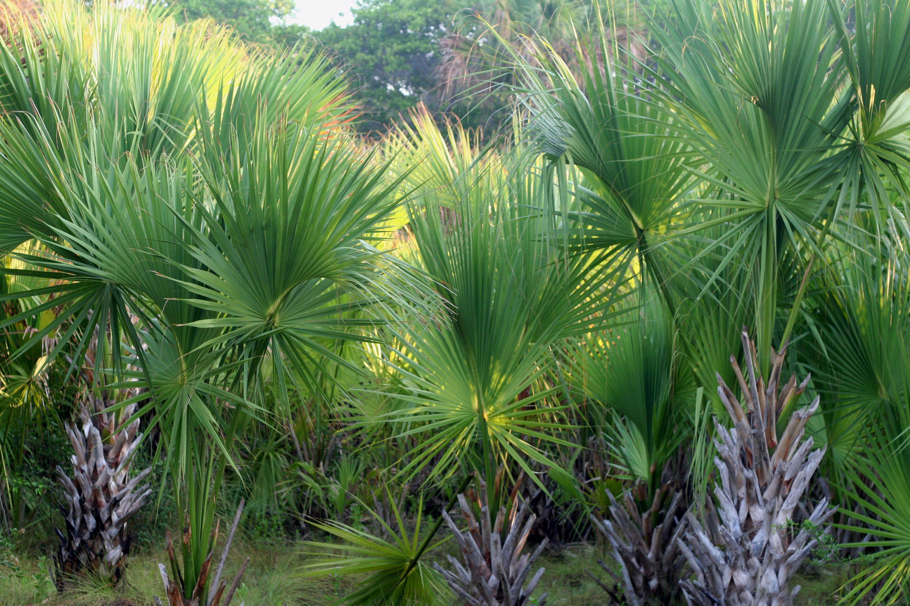 Sabal mexicana plant, growing in a plantation along the coast of Oaxaca, Mexico.